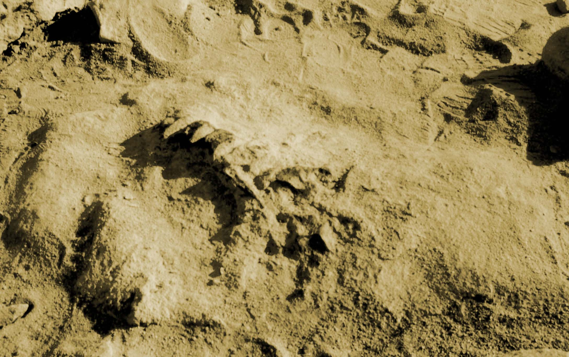 Backbone and upper limbs of an Eoraptor lunensis, outcropping from the soil. Valle de la Luna (Moon Valley), Parque Provincial Ischigualasto, Provincia de San Juan, Argentina.